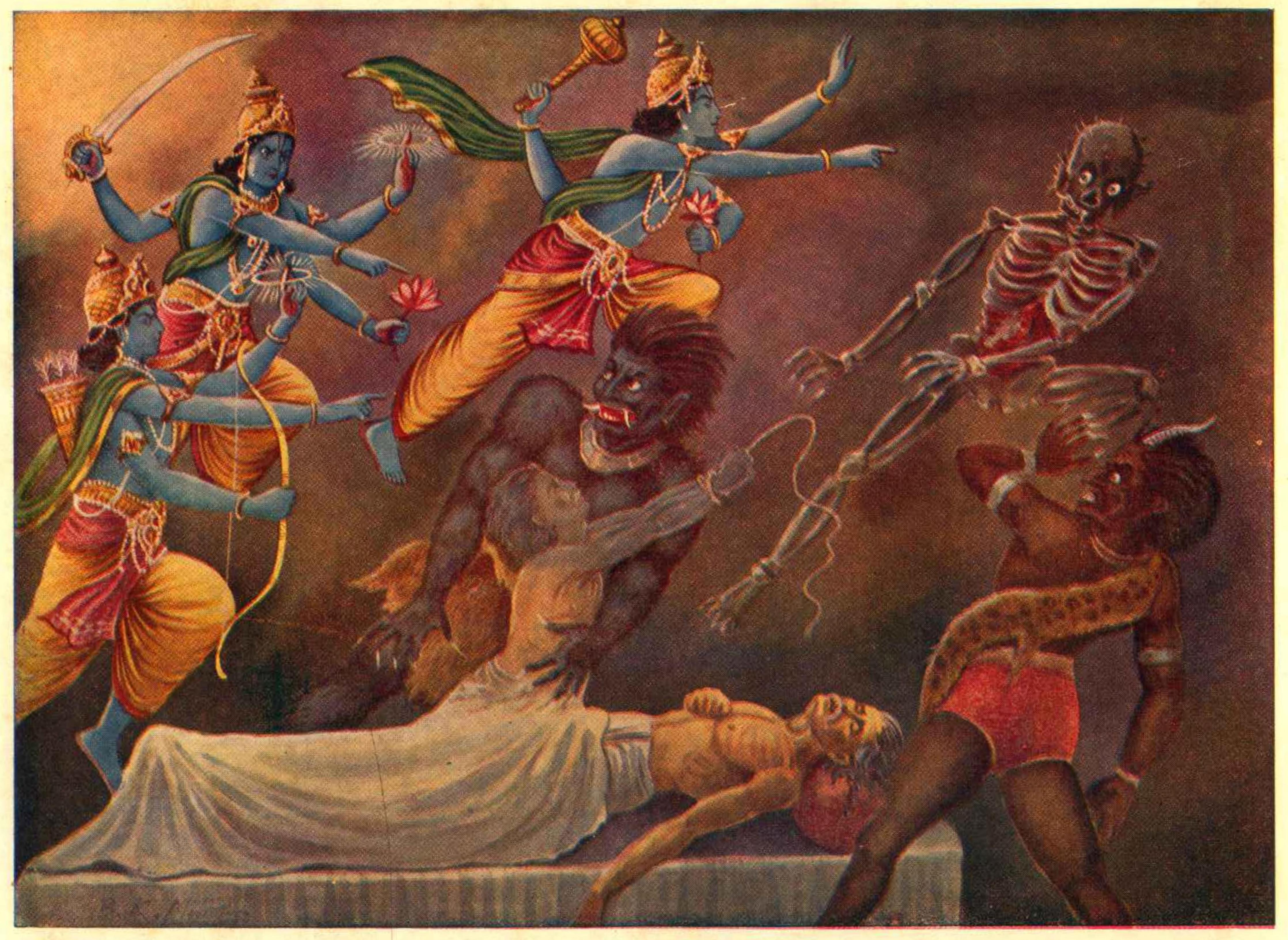 Shrimad Bhagavata Mahapurana Gita Press Gorakhpur by MahaMuni Usage Topics Sanskrit, "महामुनि का संग्रह", "Pratiek-Lucknow" Collection opensource Language Sanskrit Indological Books , 'Shrimad Bhagavata Mahapurana - Gita Press Gorakhpur.pdf' Identifier ShrimadBhagavataMahapuranaGitaPressGorakhpur Identifier-ark ark:/13960/t1bk7m619 Ocr language not currently OCRable Ppi 600 Scanner Internet Archive HTML5 Uploader 1.6.3